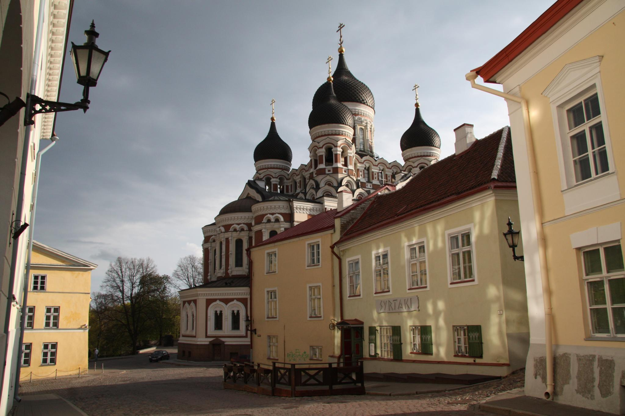 Russian orthodox church in Toompea